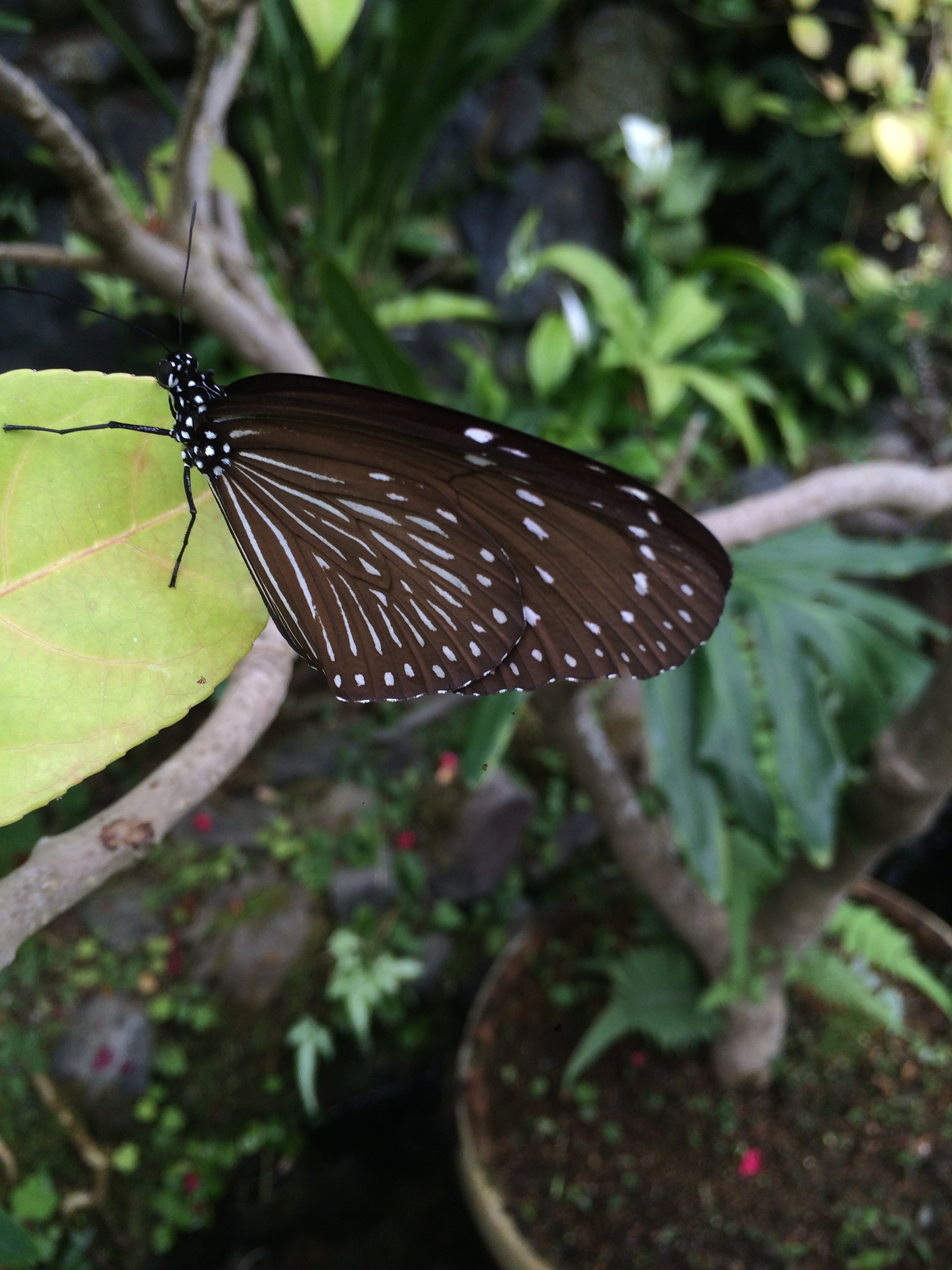 A female striped blue crow at butterfly greenhouse in Itami city museum of insects